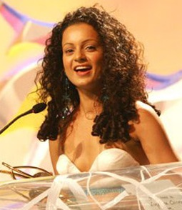 Kangana Ranaut at GIFA in 2006